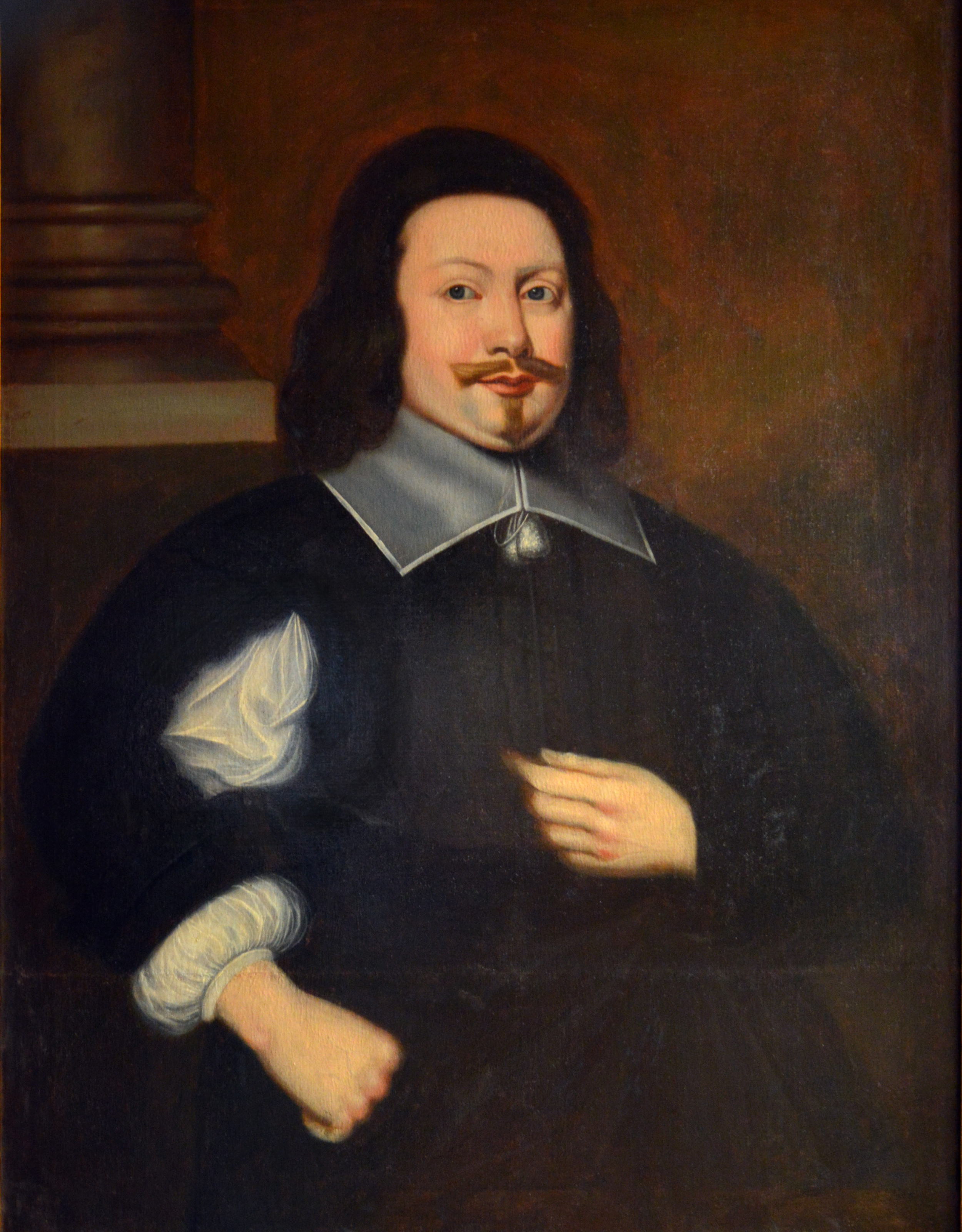 Portrait of Schering Rosenhane (1609–1663), Swedish